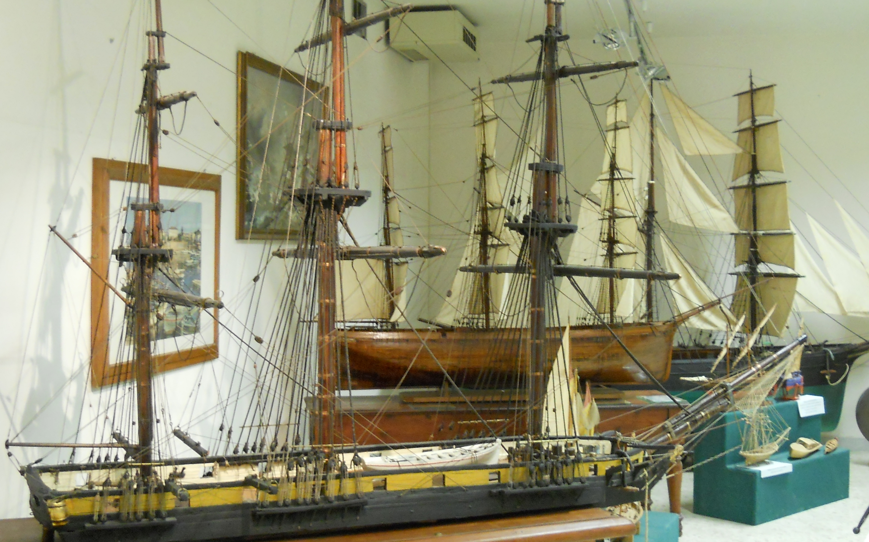 models of ships at the Museo del mare di Napoli